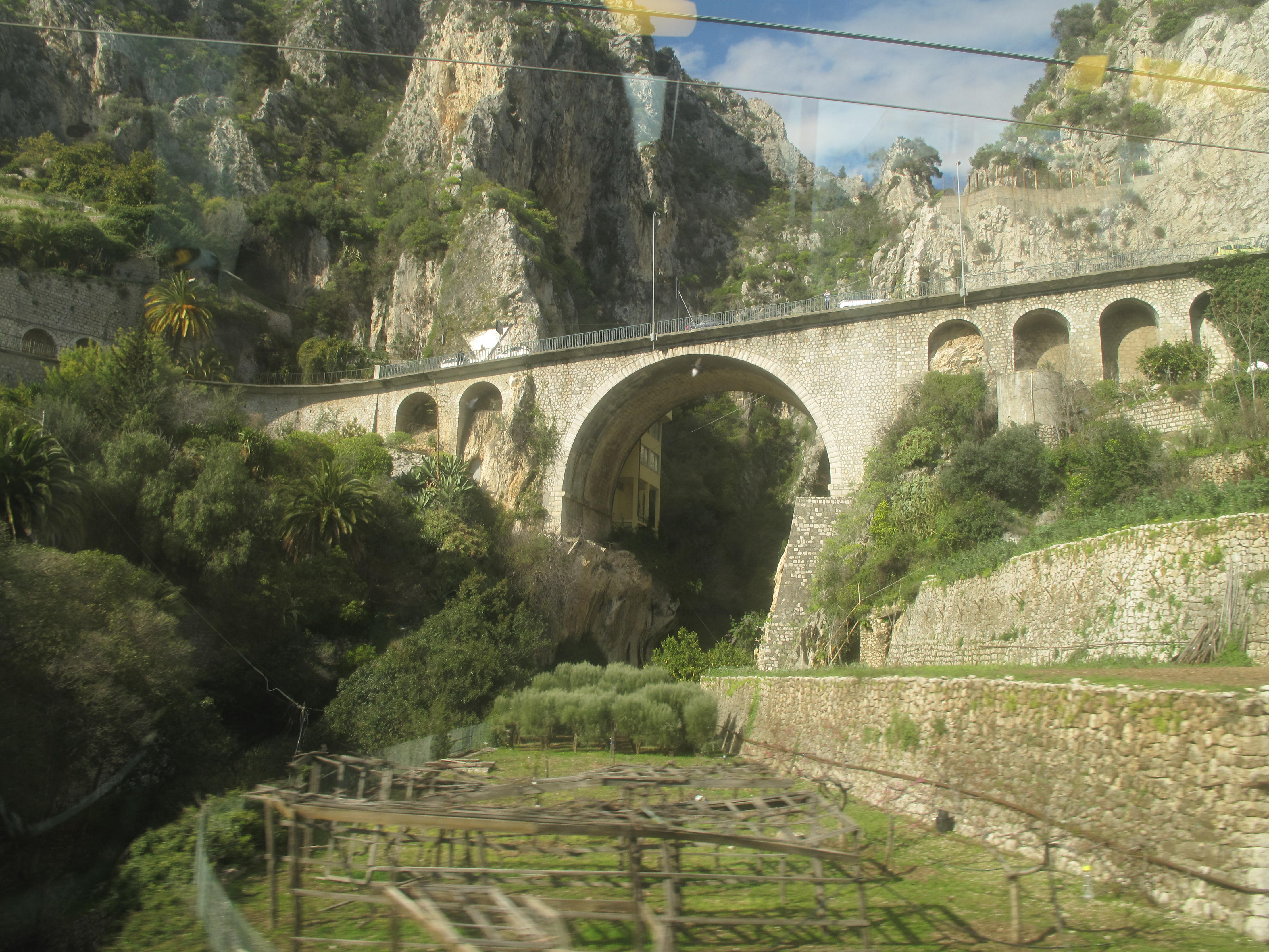 The Saint-Louis bridge in the town of Menton (Alpes-Maritimes, France). There is a note to show the place of the "ouvrage du pont Saint-Louis".